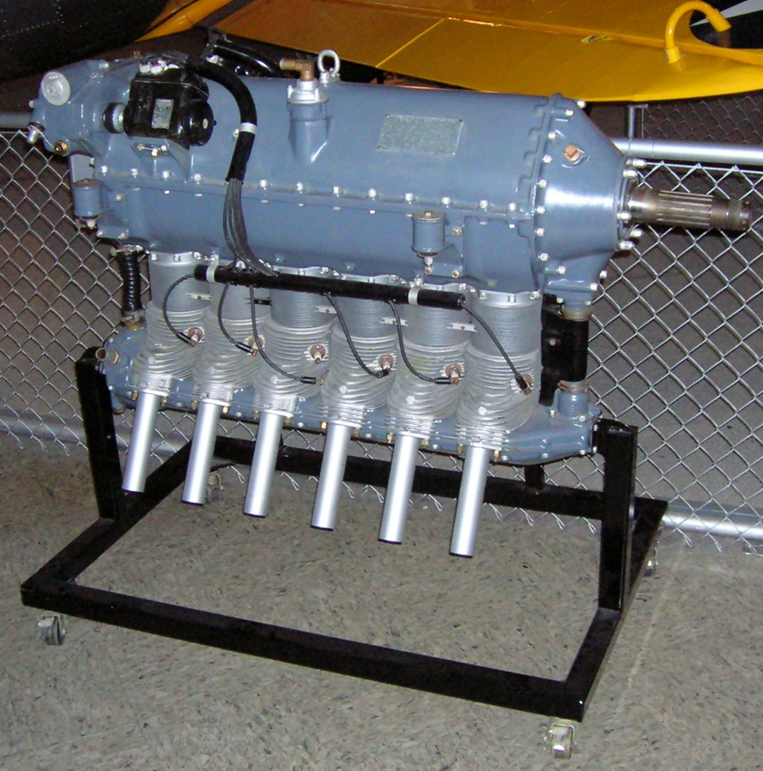 Ranger 6-440C2 inverted 6 engine, San Diego Aerospace Museum, California